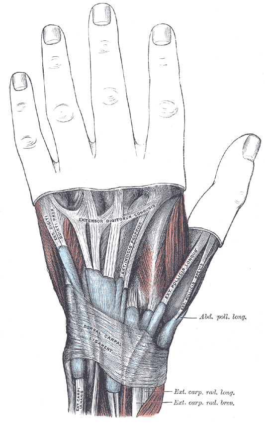 The mucous sheaths of the tendons on the back of the wrist.